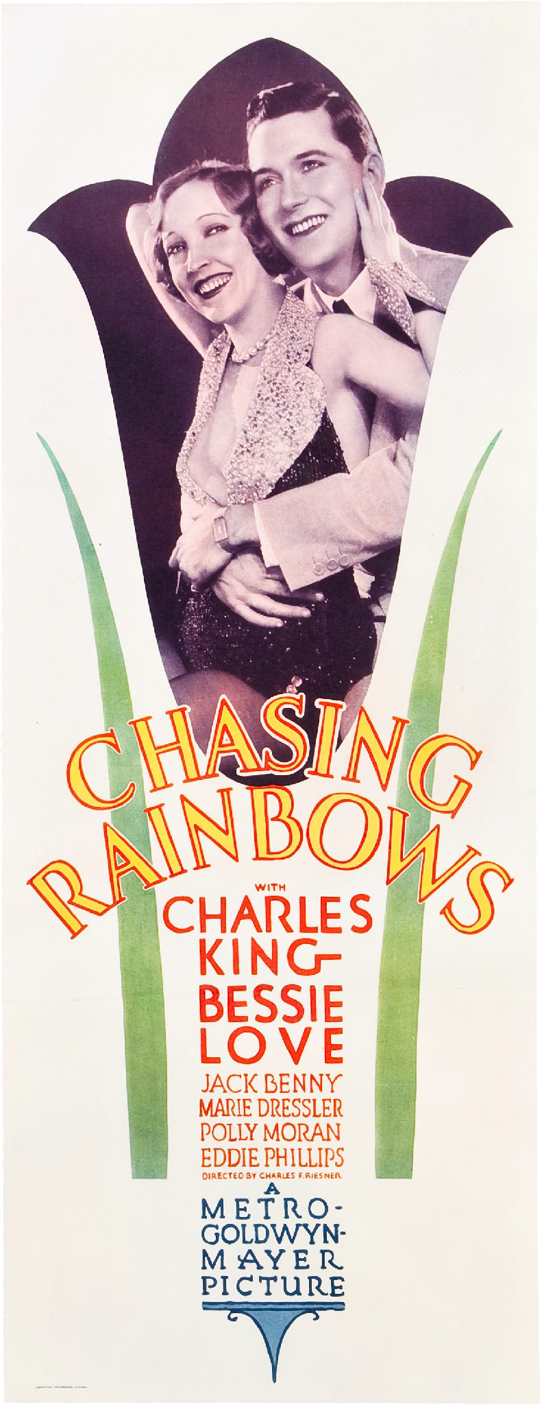 Poster for the 1930 film Chasing Rainbows. There are no copyright marks on the item. At lower left is Country of origin USA.